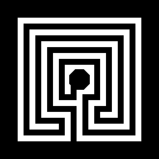 Labyrinth of Chevetogne Abbey, Belgium.